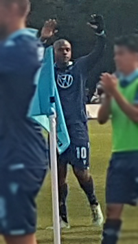 Colombian footballer Luis Alberto Perea of the HFX Wanderers after a 2019 Canadian Championship match at Wanderers Grounds in Halifax, Nova Scotia, on 10 July 2019.